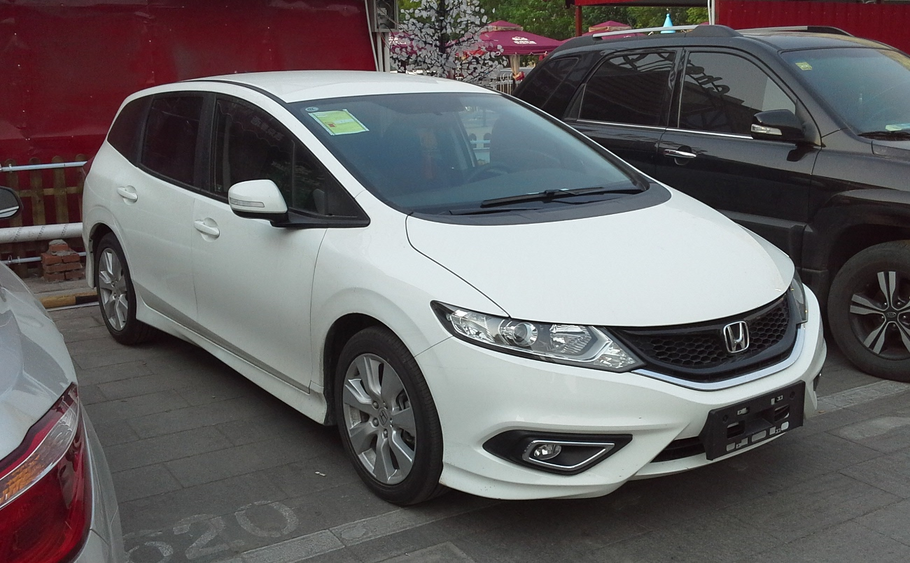 Honda Jade photographed in Beijing, China.